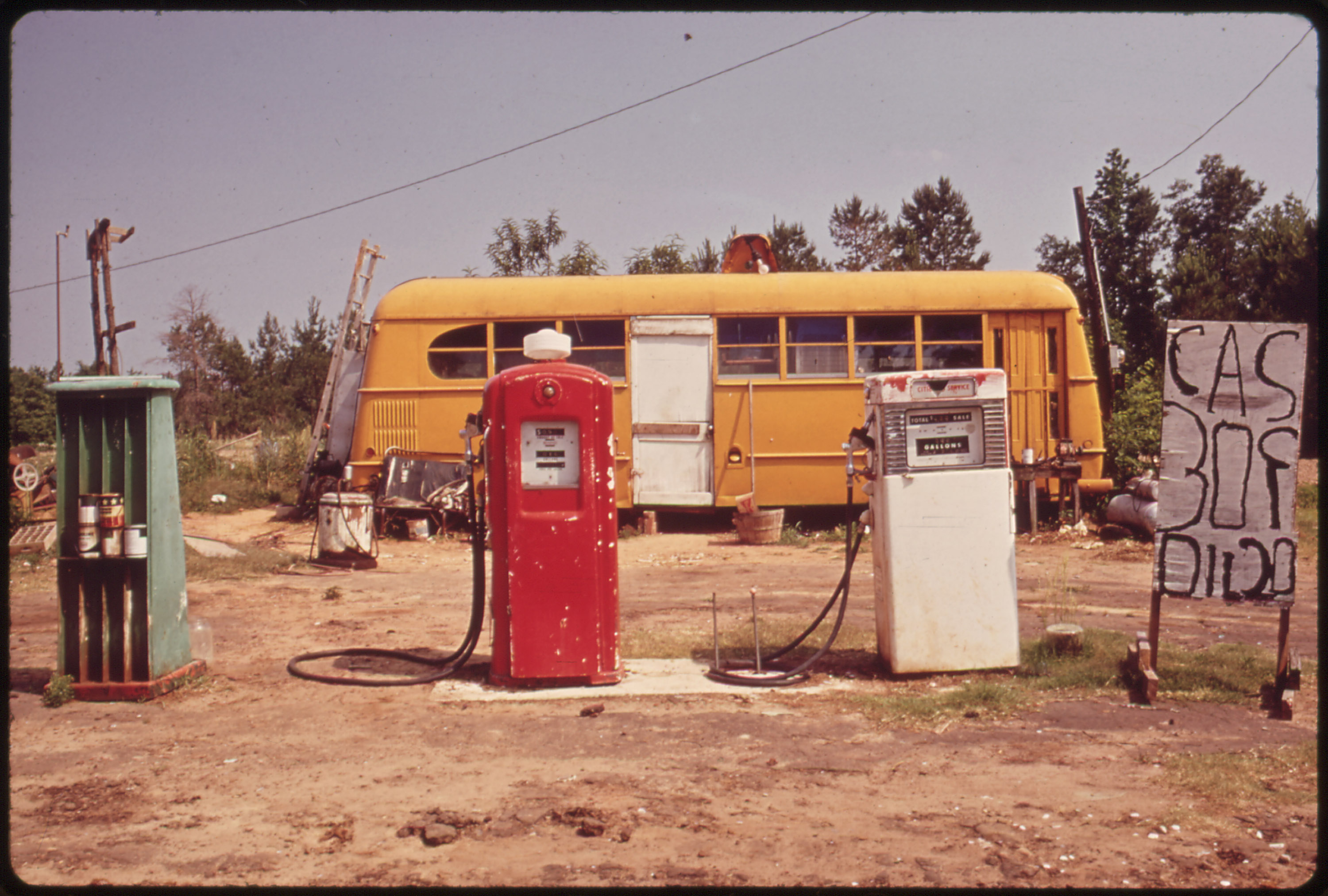 CUT-RATE GAS STATION OPERATES OUT OF BUS, 06/1972 Harrison County, Texas